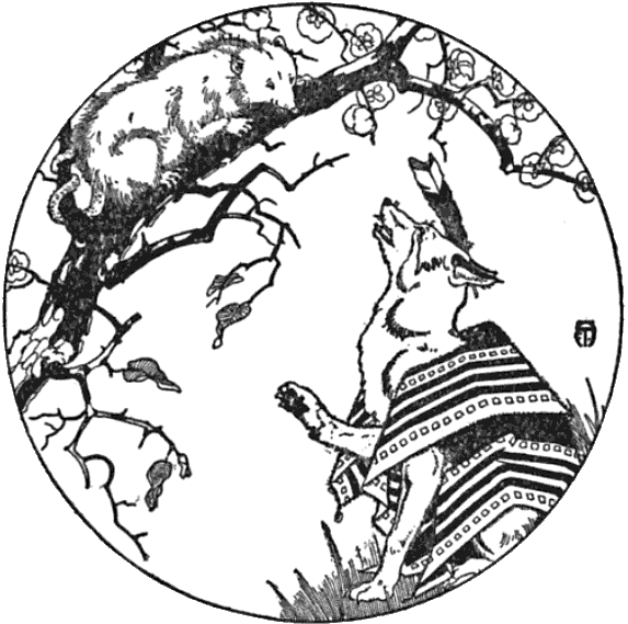 Coyote attempts to get persimmons from Opossum in a traditional native American Caddo story.